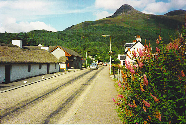 Glencoe village. Note the thatched cottage on the left and the Pap of Glencoe on the skyline.